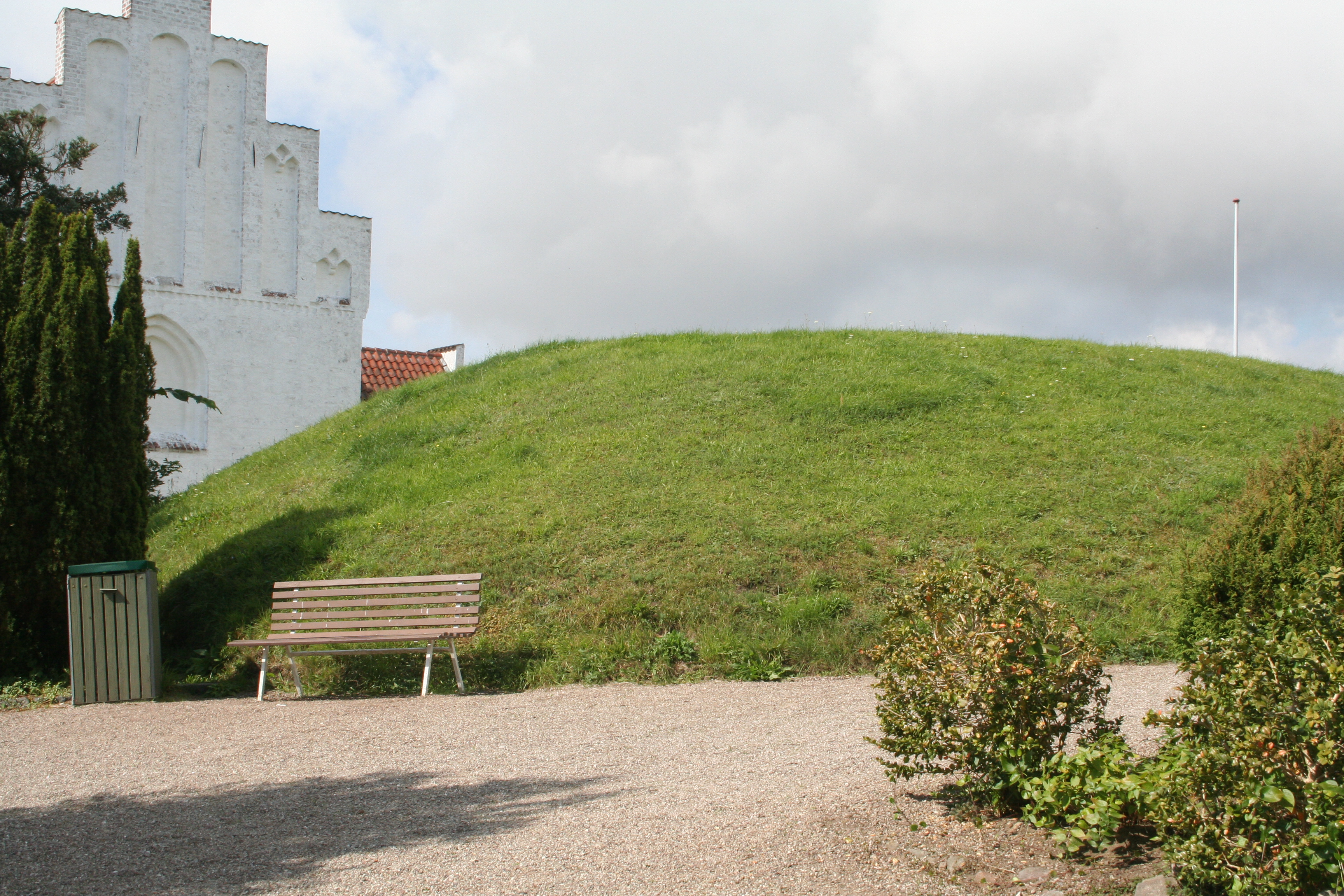 Burial Mound at Elmelunde church